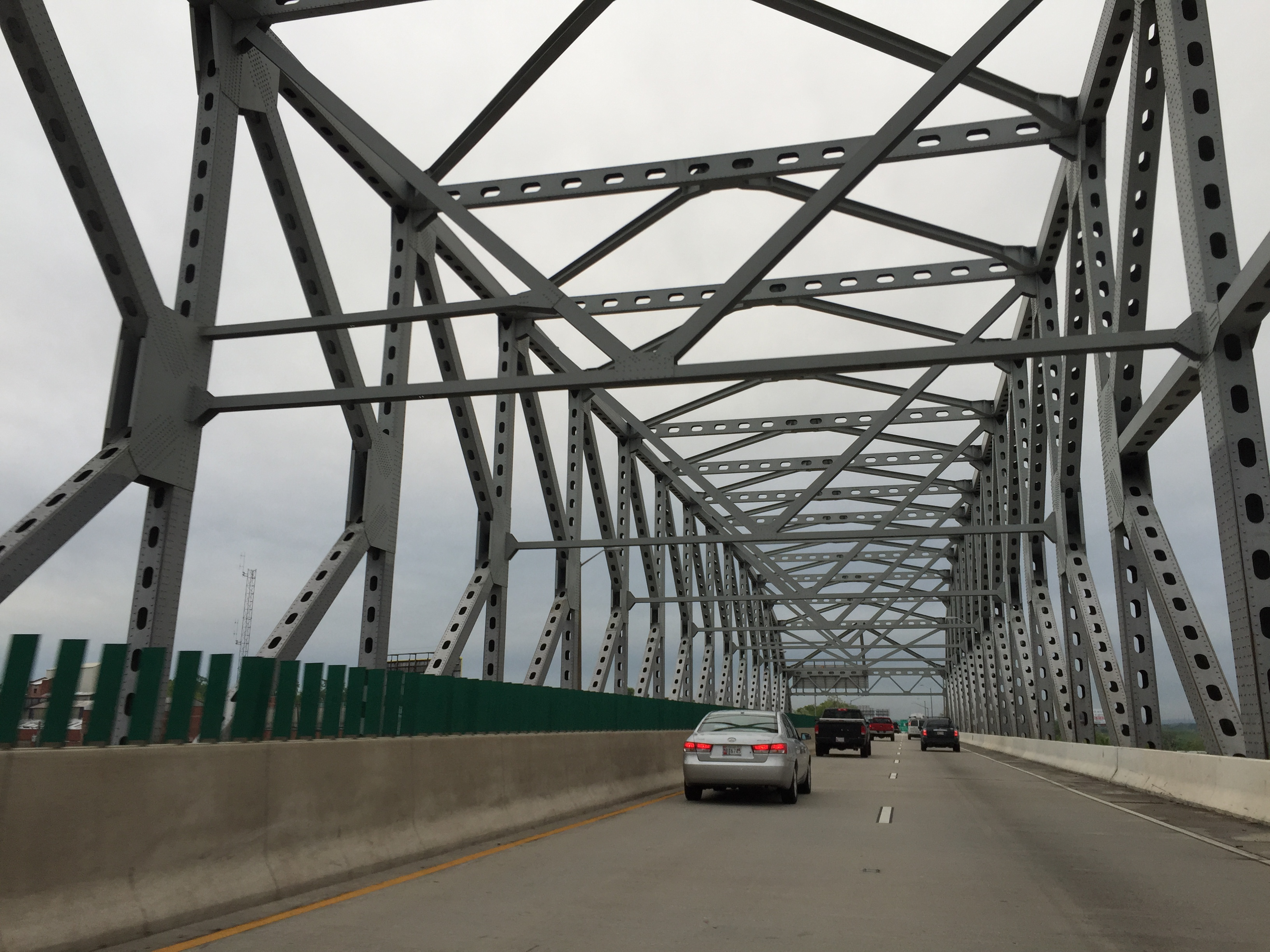 View south along Interstate 895 (Baltimore Harbor Tunnel Thruway) as it crosses over the CSX's Curtis Bay Branch rail line in Baltimore City, Maryland